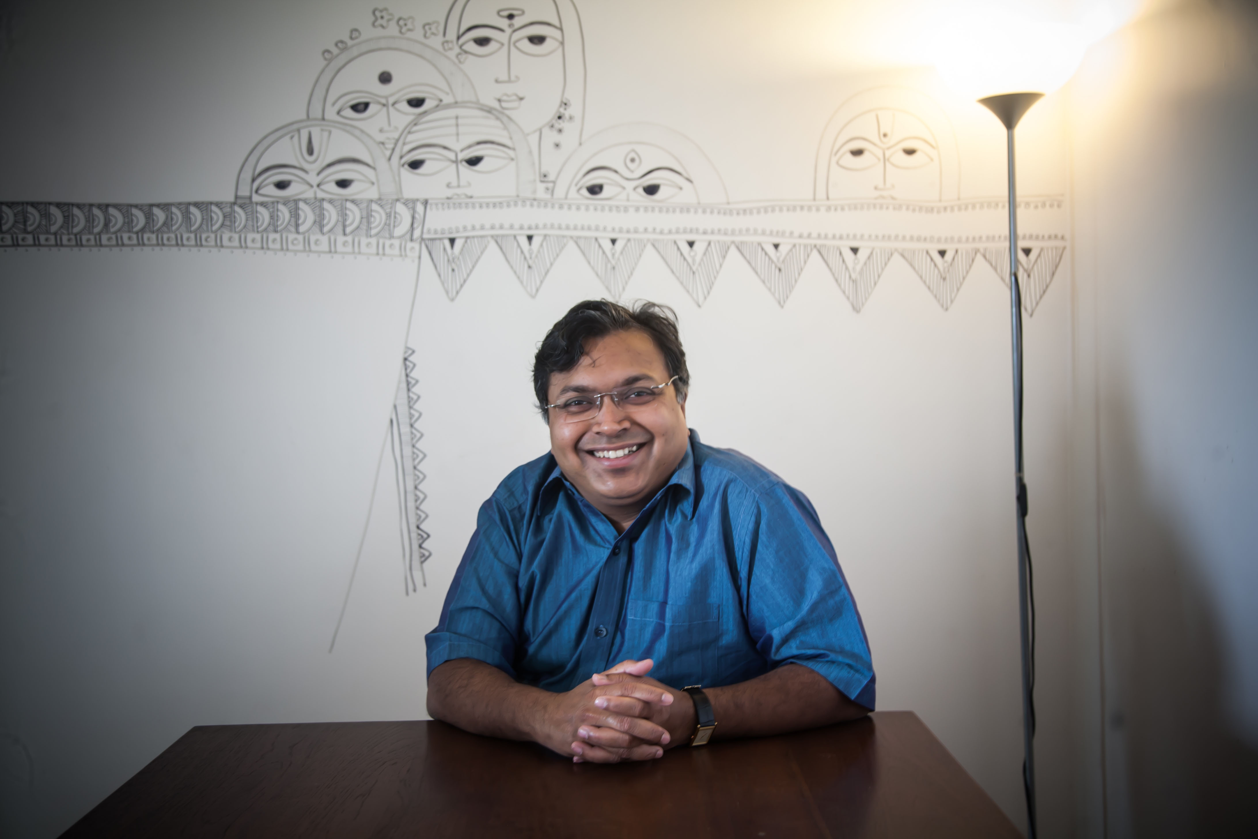 At home in Mumbai, mythologist, author and illustrator Devdutt Pattanaik